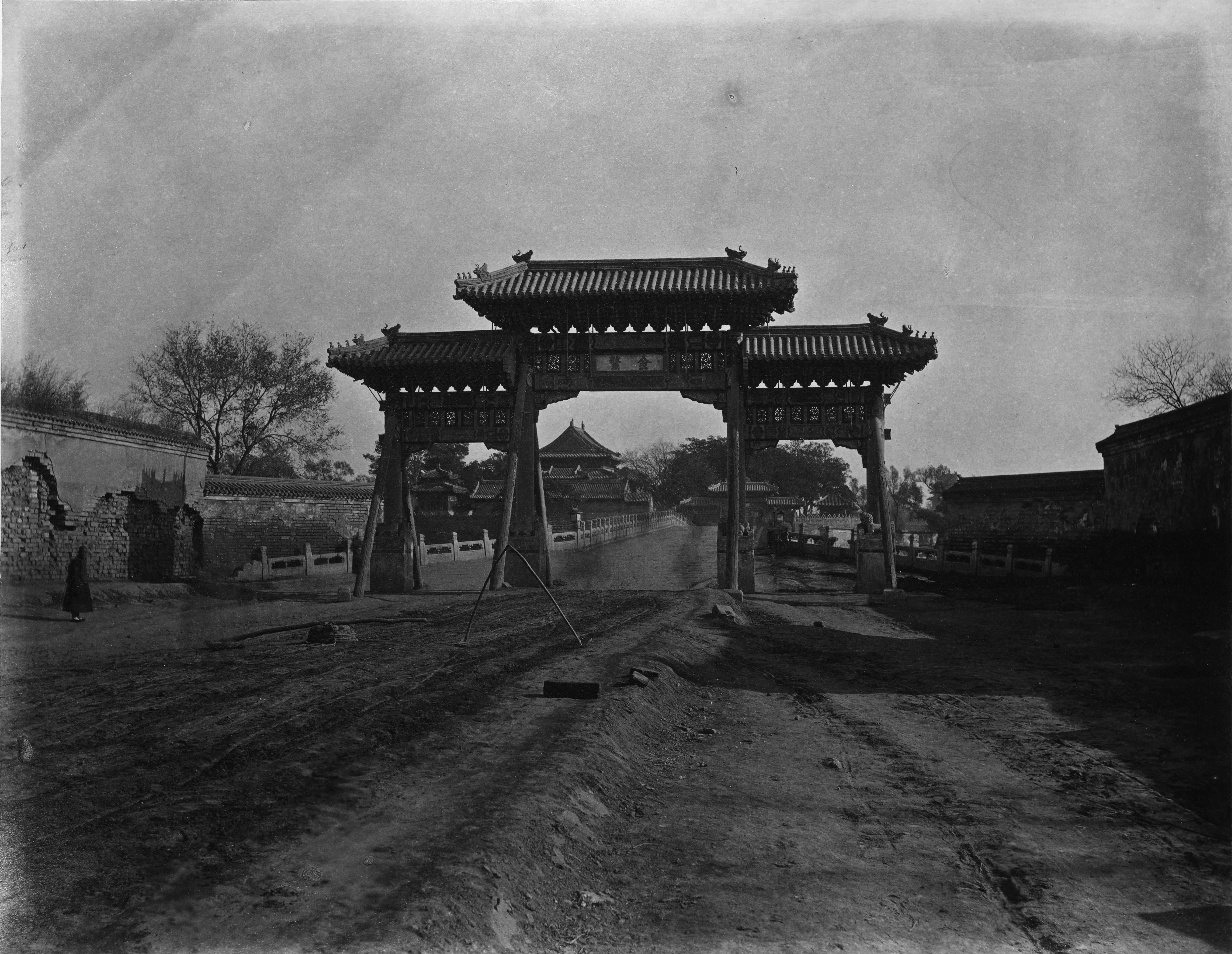 Photograph in Album of photographs of Peking and its environs.